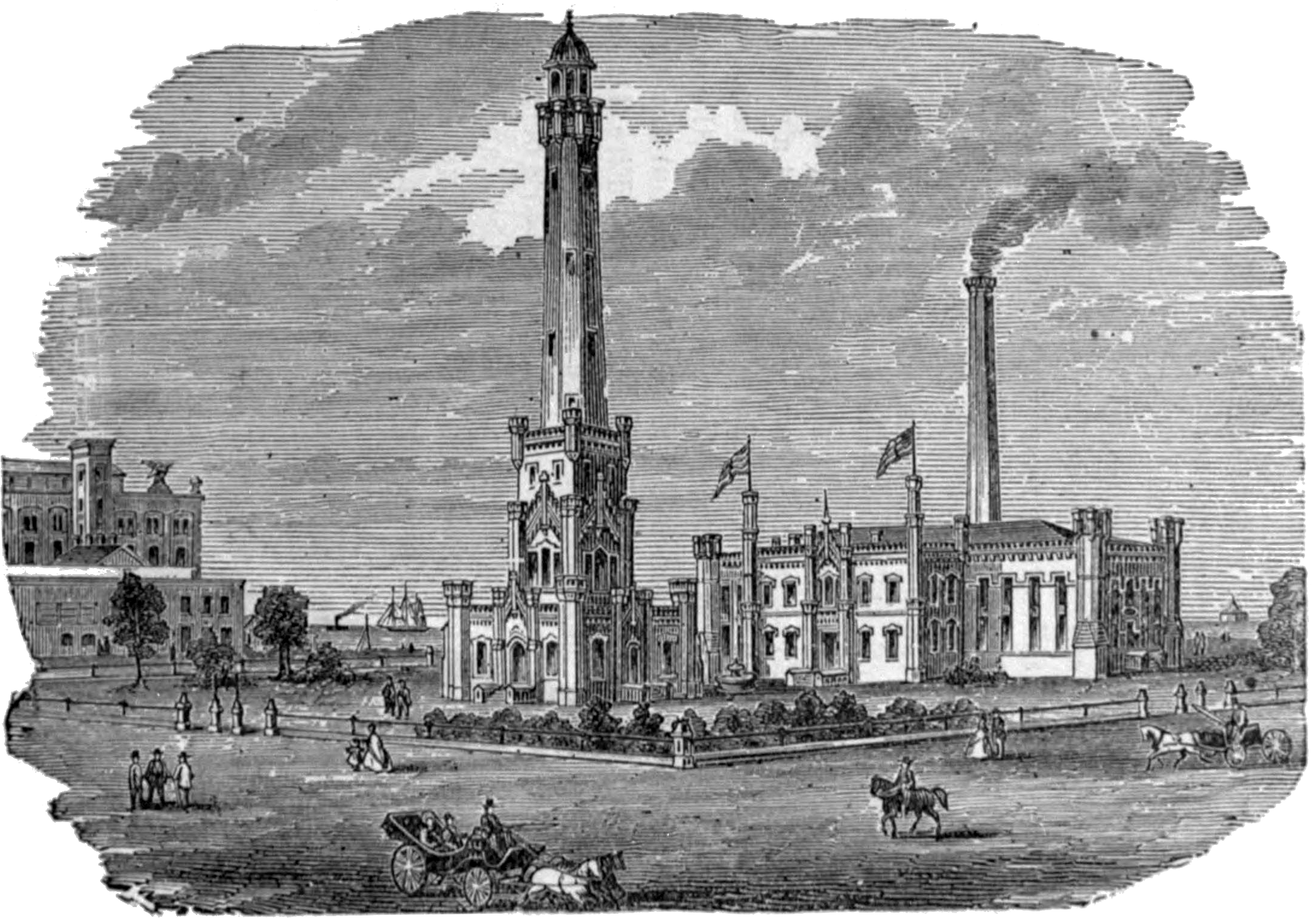 Chicaco Water Tower & Chicago Avenue Pumping Station, as published in 1886